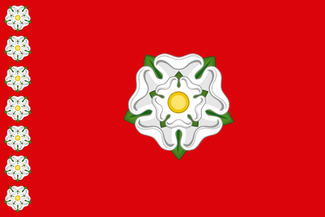 Flag of Prince Charles Edward Stuart during the Second Jacobite Rebellion (1745-46)